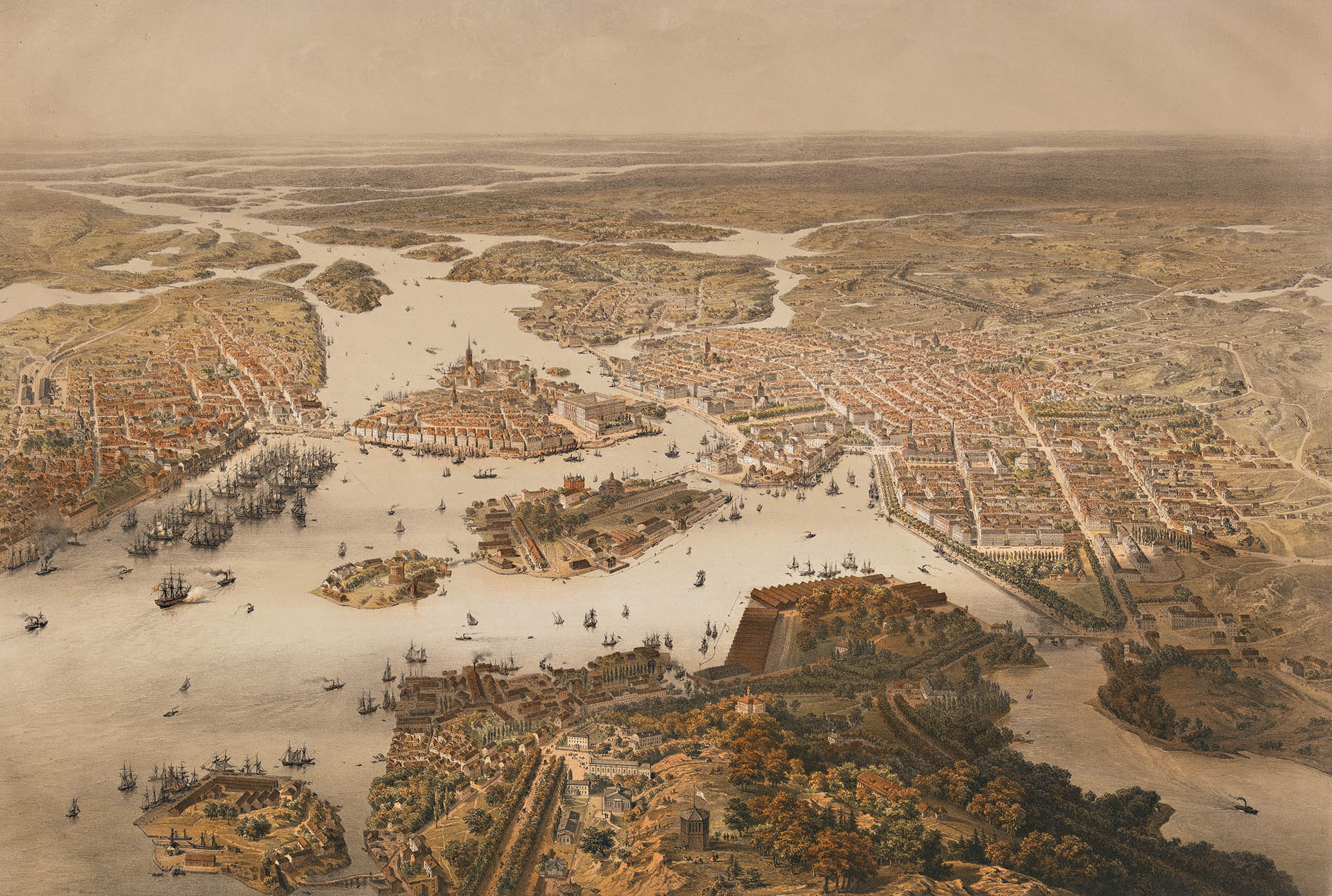 Stockholm panorama. Lithography by Carl Johan Billmark 1868.